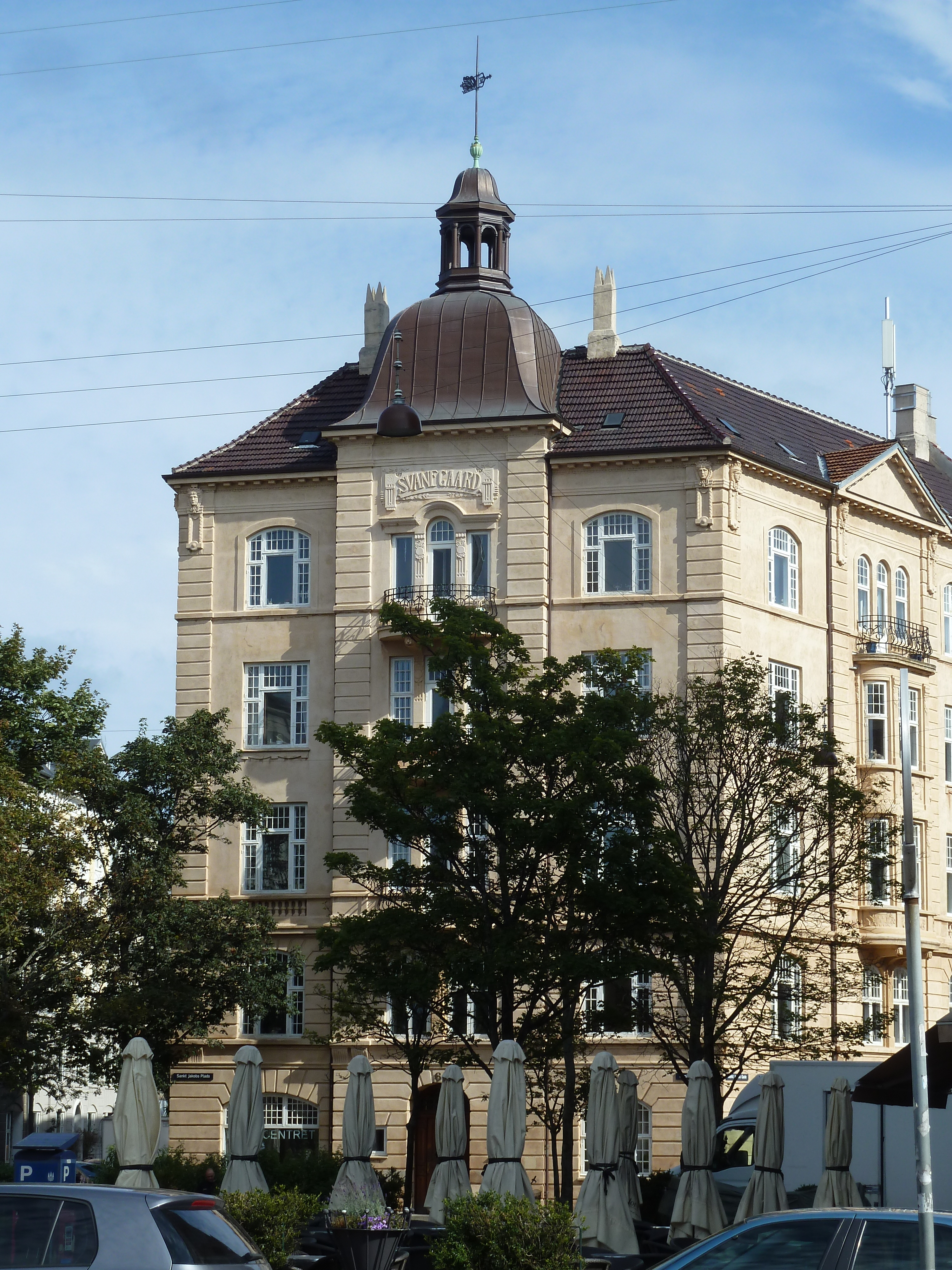 The building Svanegaard on Sankt Jakobs Plads in the Østerbro district of Copenhagen, Denmark